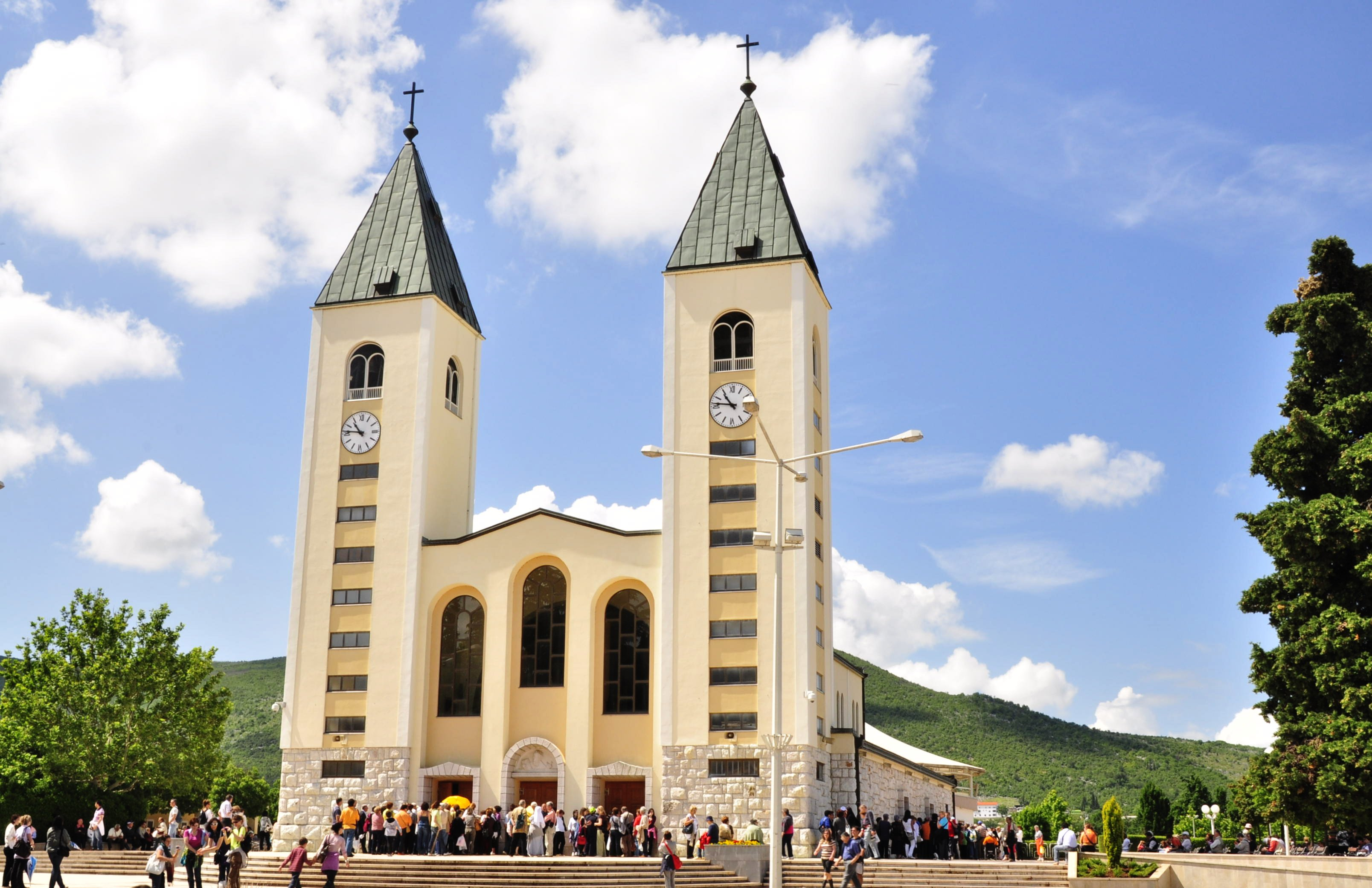 St. Jacob church in Međugorje, Bosnia.